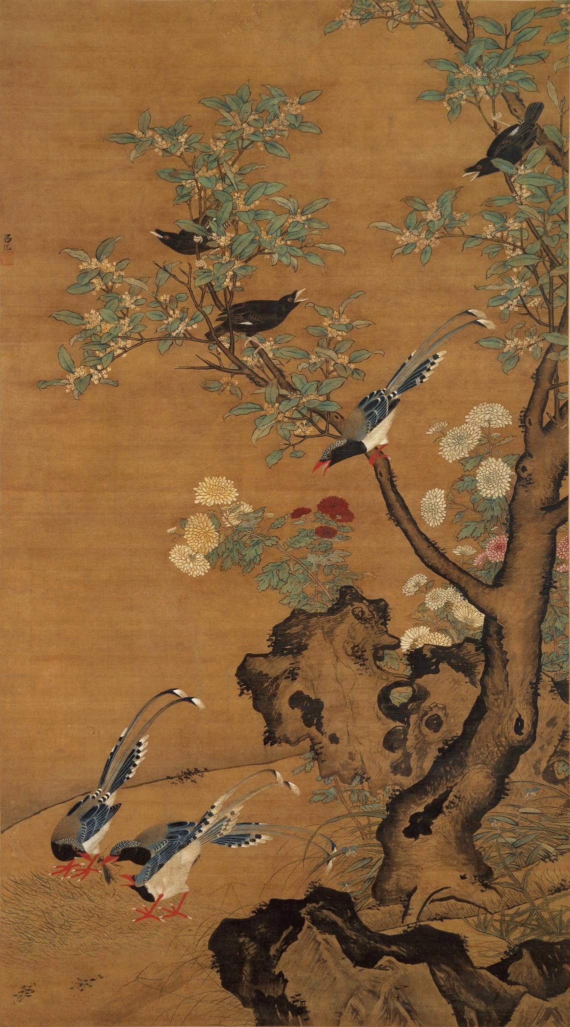 Lü Ji, Birds in Osmanthus and Chrysanthemum, 190x106cm, Palace Museum, Beijing.